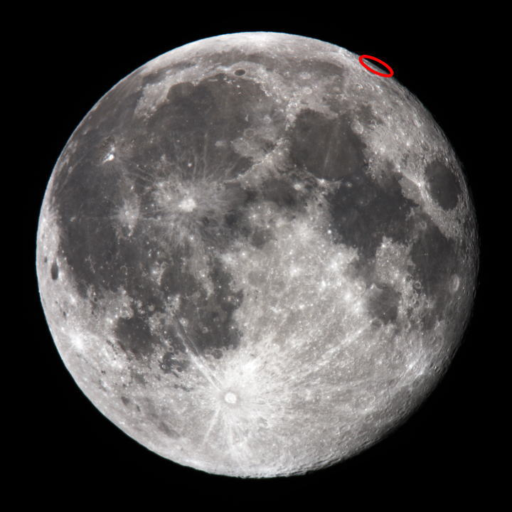 The Location of Mare Humboldtianum, One of the Lunar Geographical Features.